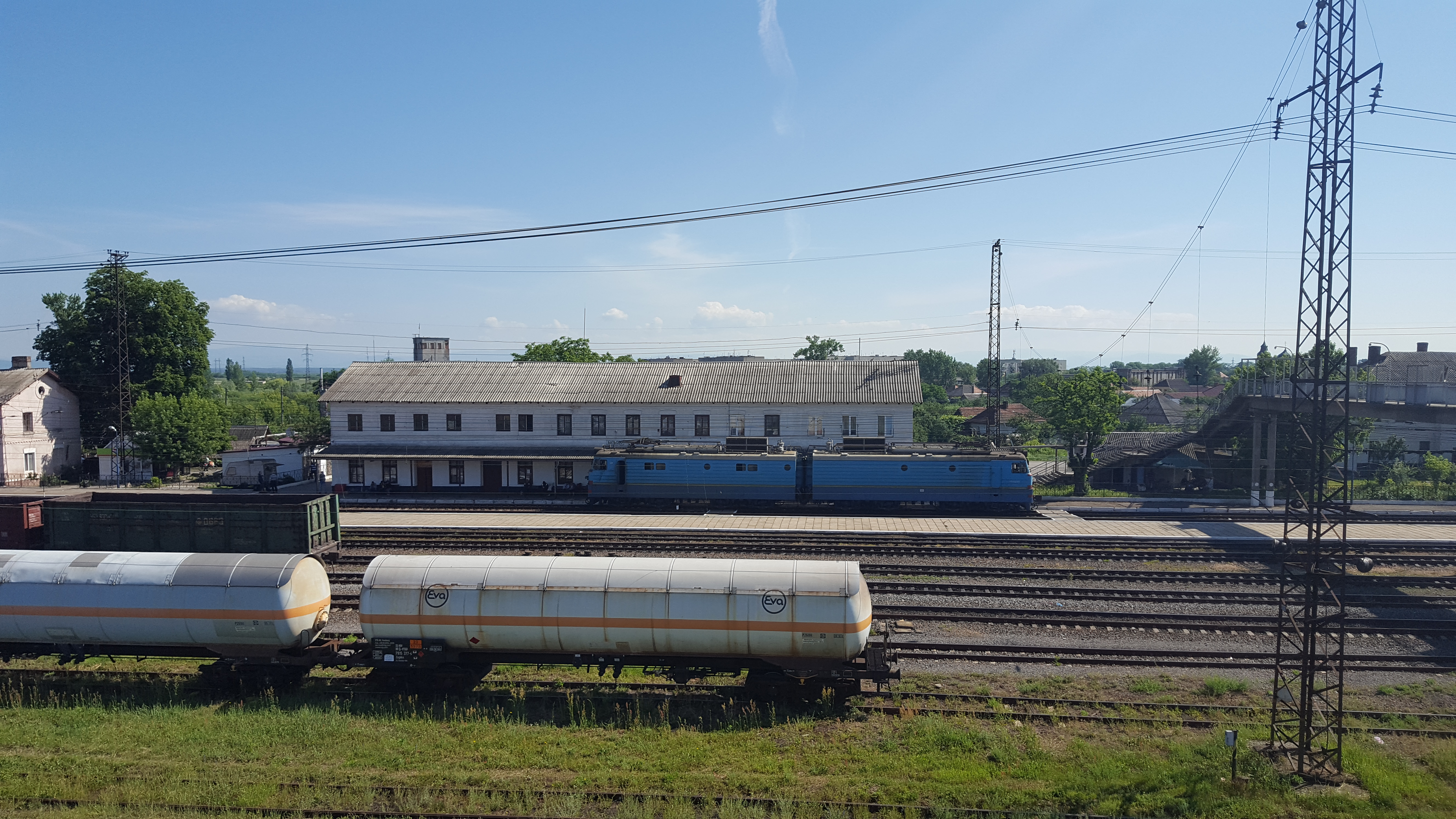 Train station in Batiovo (Батьово), Ukraine, as seen from a pedestrian bridge.